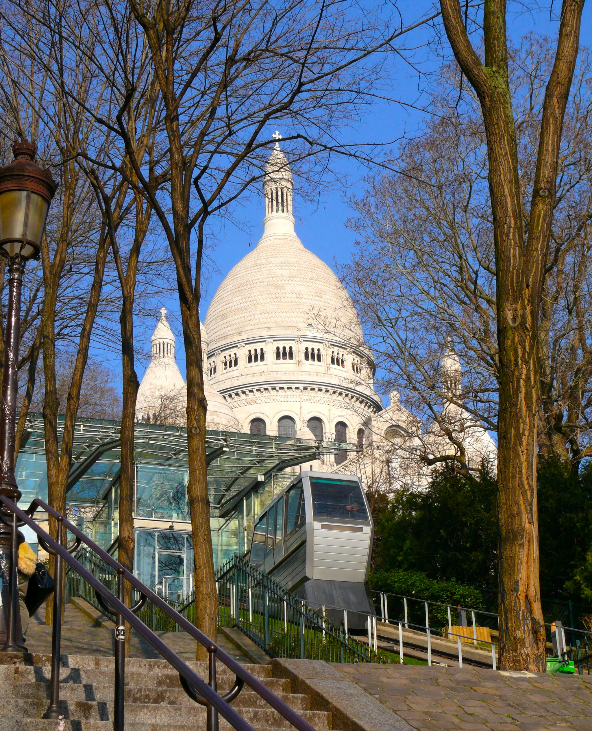 Montmartre funicular in front of the Sacré-Cœur basilica, in Paris (France).